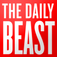 Logo of The Daily Beast.